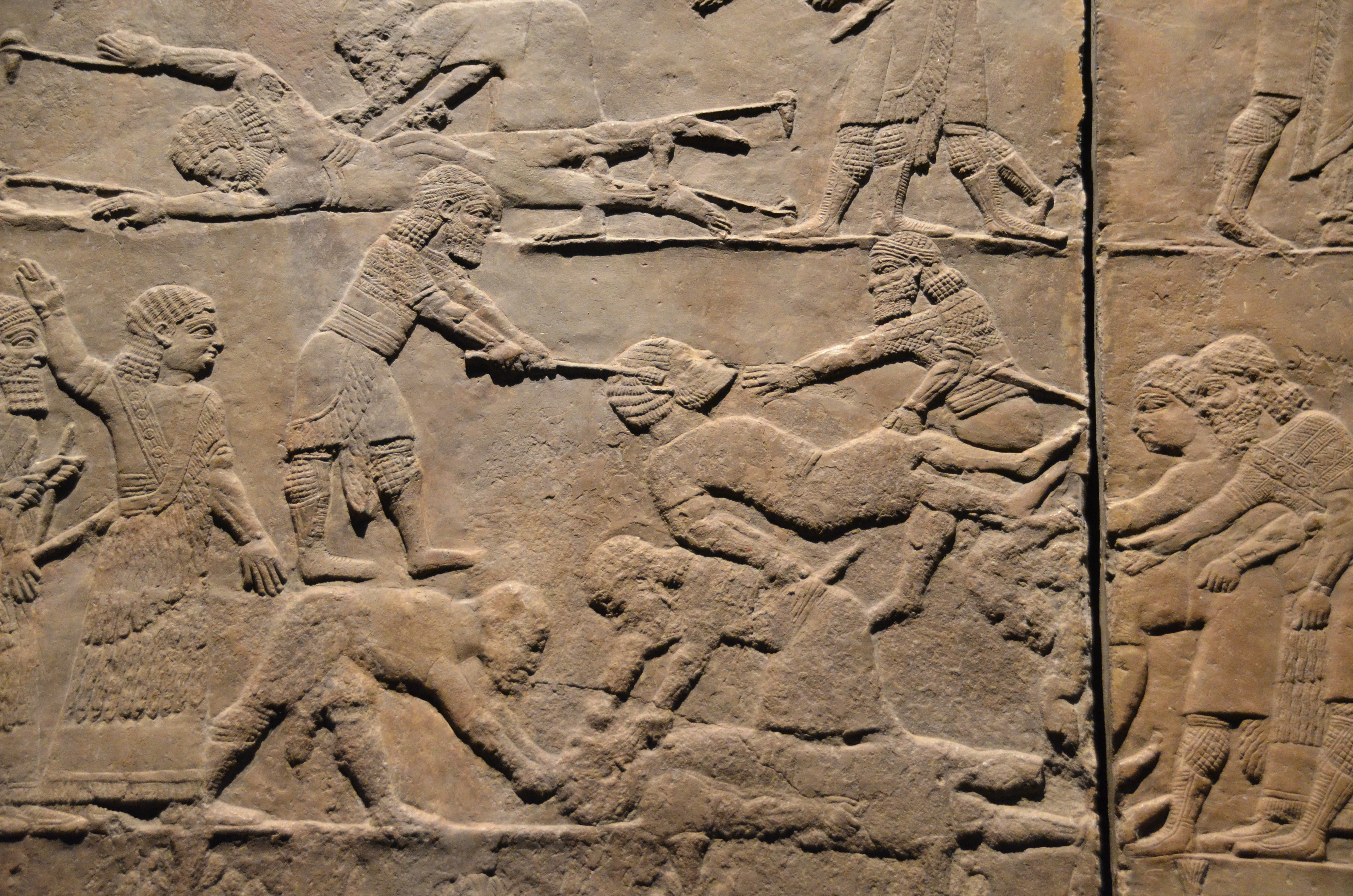 Detail of this scene Detail of this reliefExhibition: I am Ashurbanipal king of the world, king of Assyria, British Museum. Tongue extraction and flaying